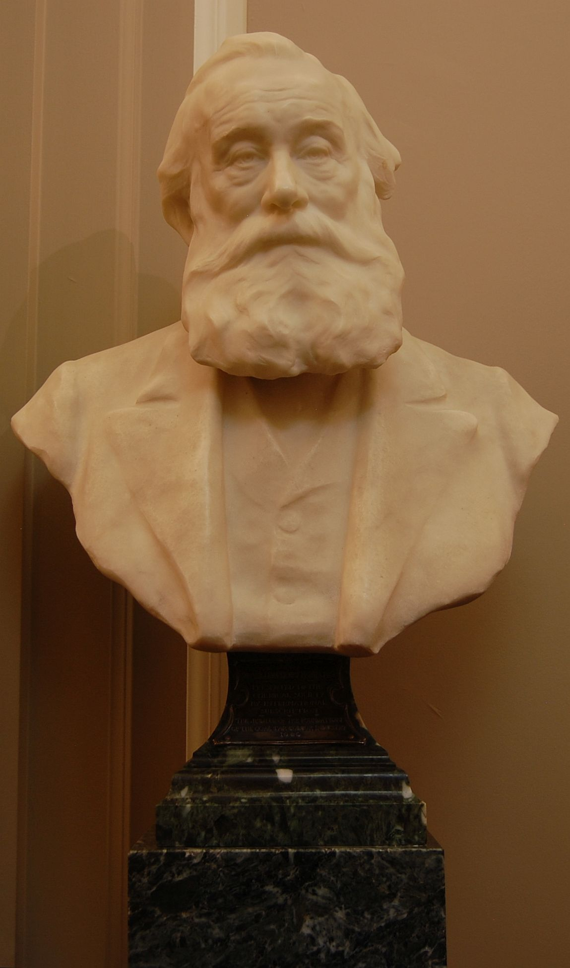 Artwork in the collection of the Royal Society of Chemistry, at it's Burlington House, London, headquarters.